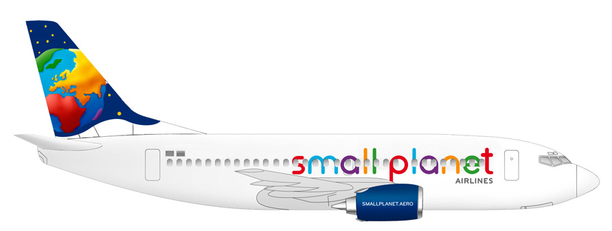 Livery design of Small Planet Airlines B733